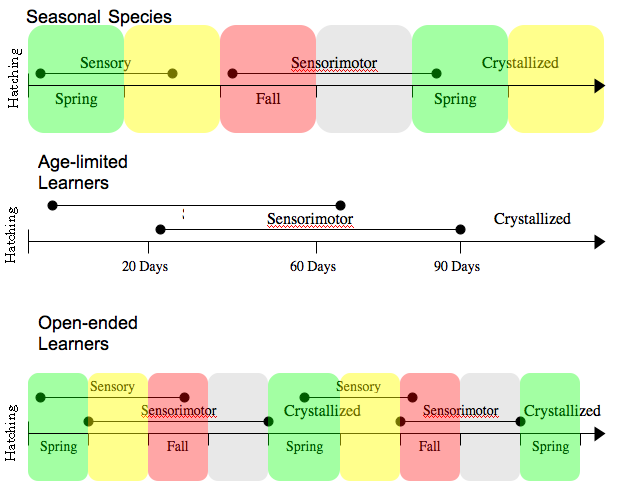 Development timeline of bird song learning